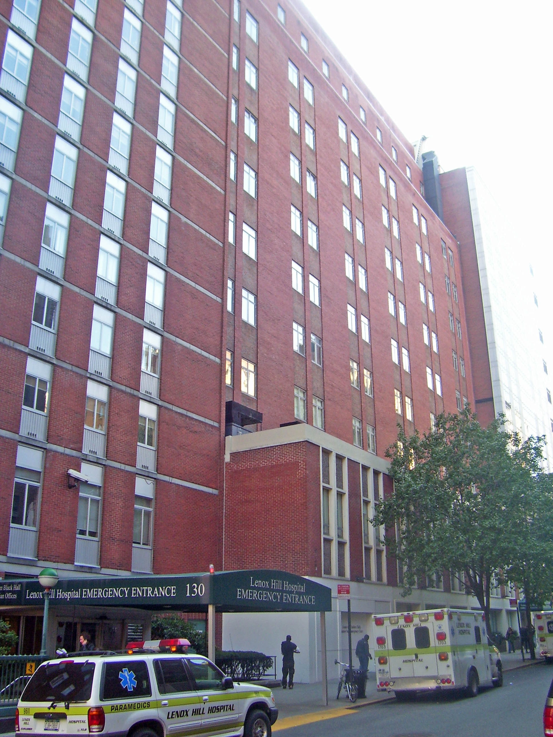 North facade and entrance of Lenox Hill Hospital, New York City